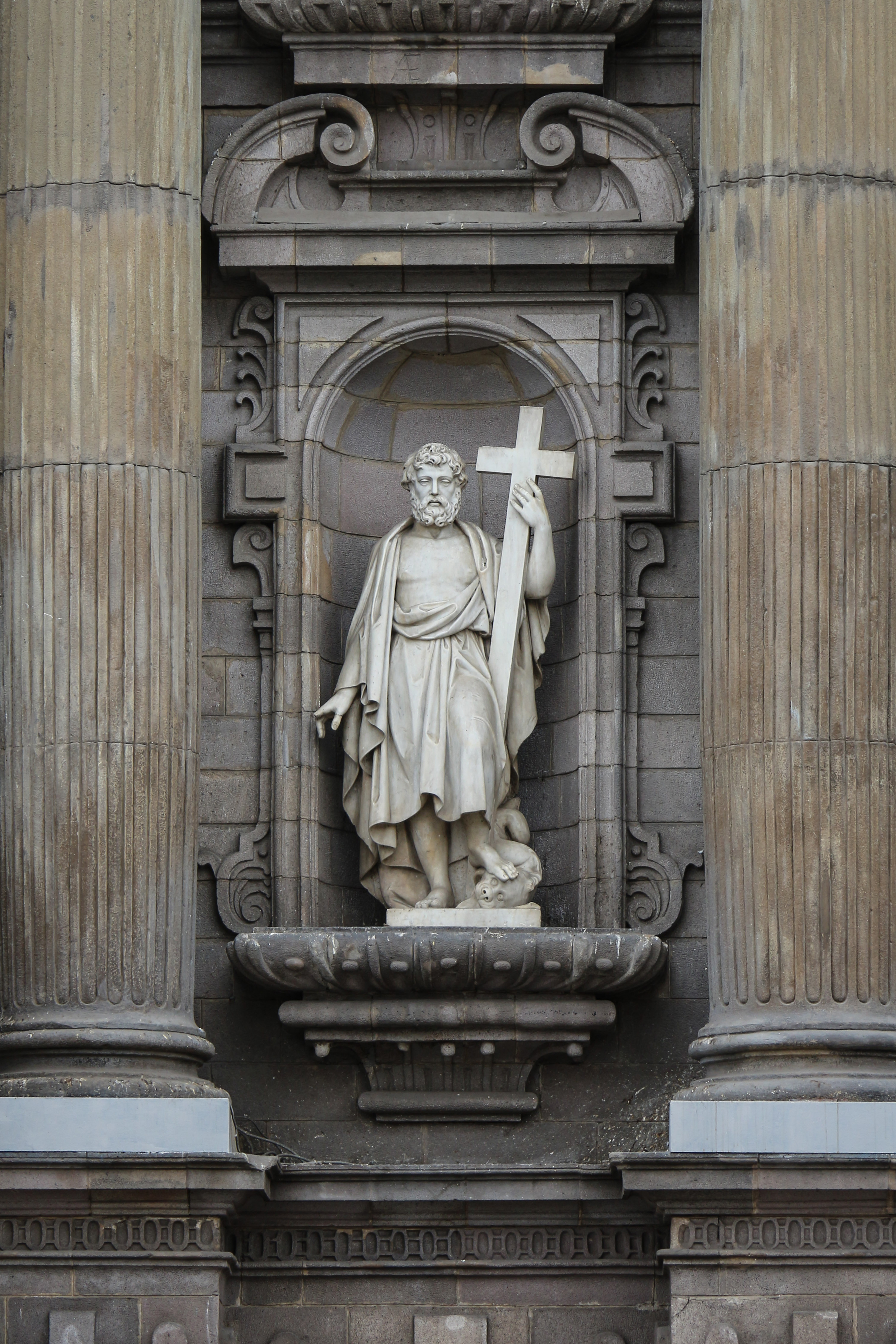 Sculpture on the facade of the Cathedral of Lima, Peru